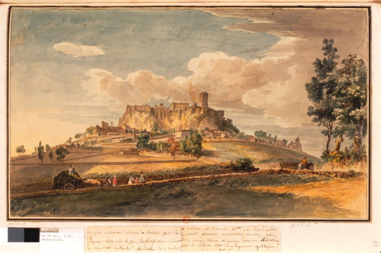 Polignac